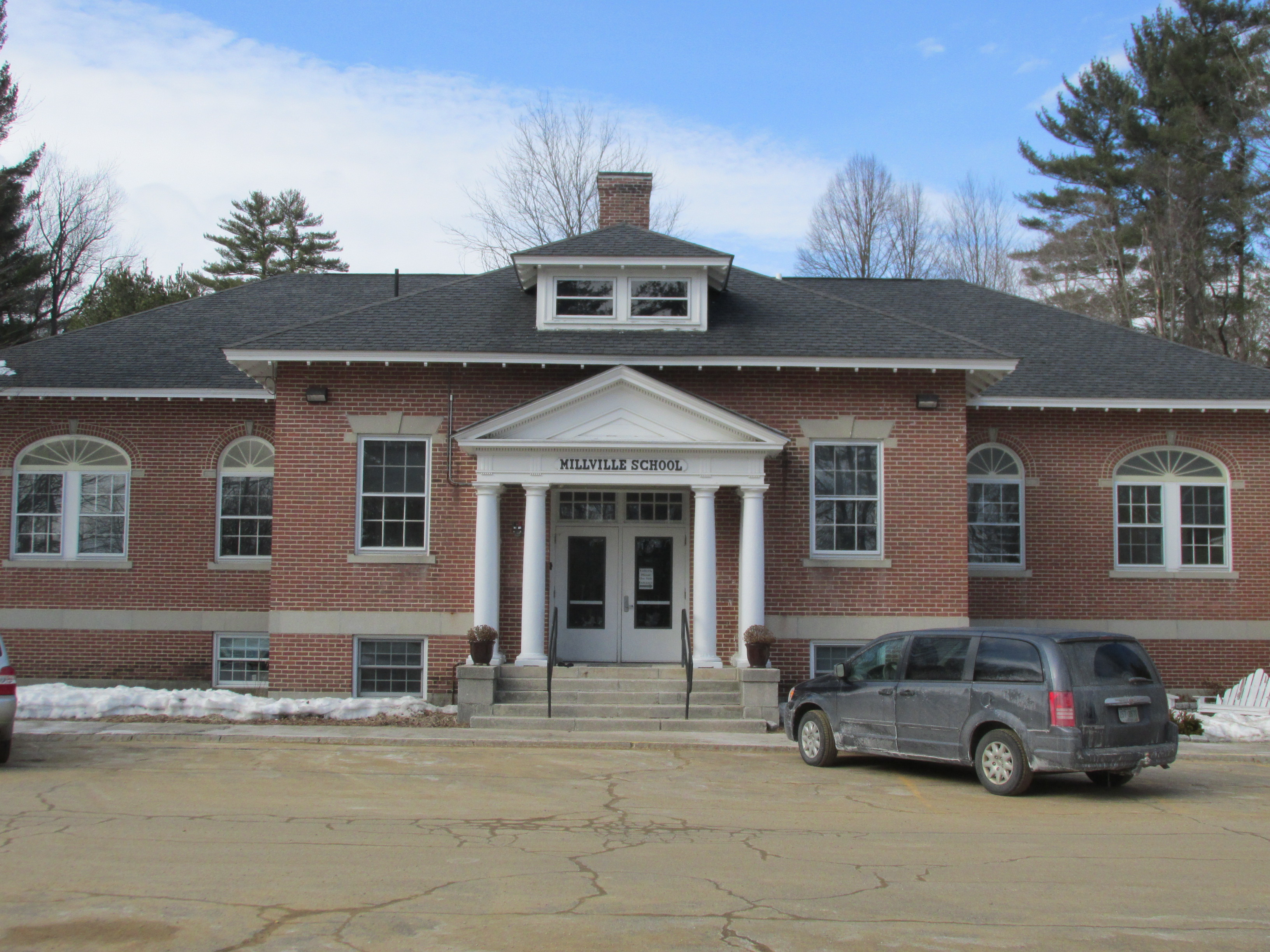 Millville School, Concord New Hampshire - 2014